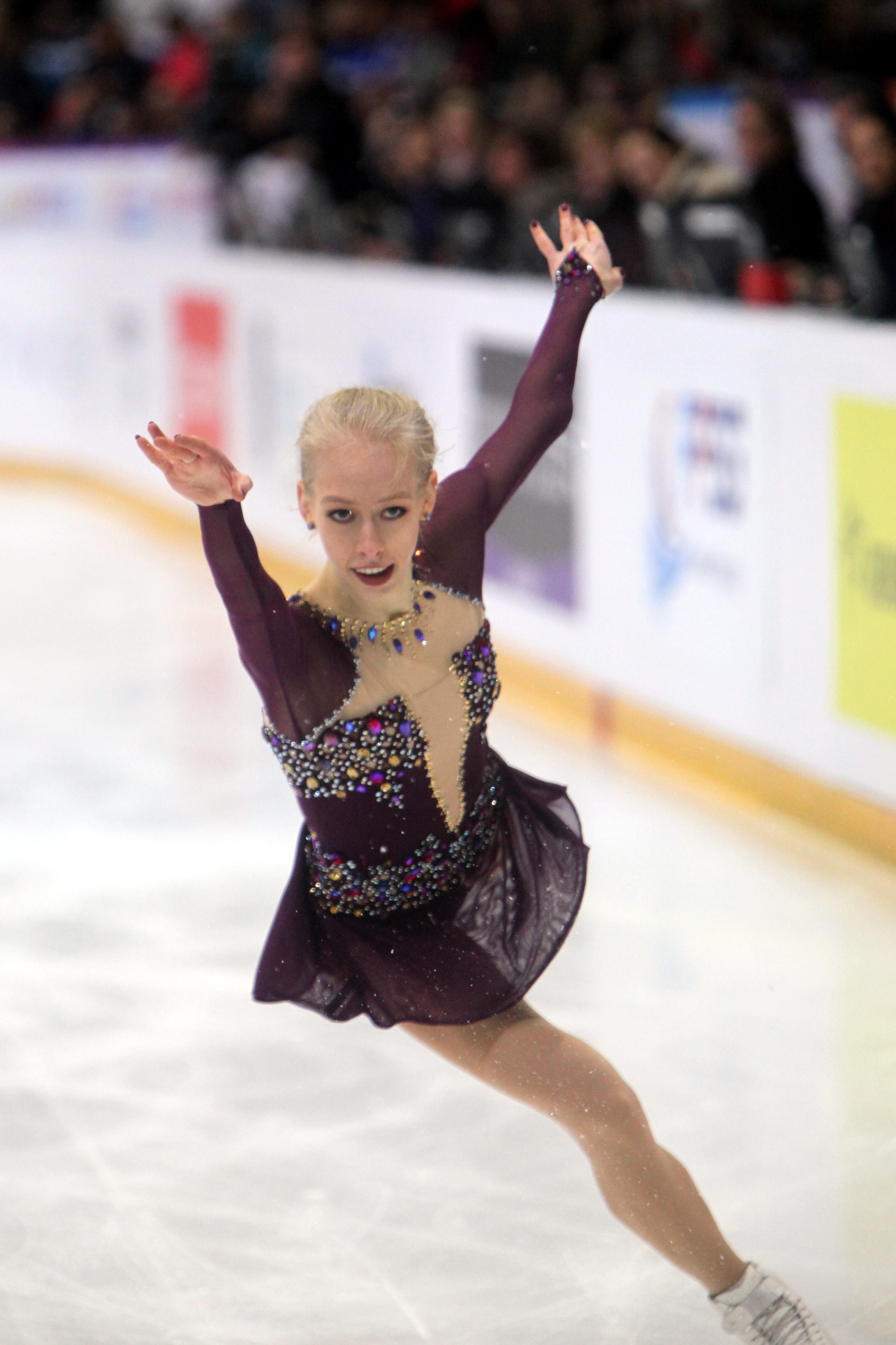 Bradie Tennell during the Ladies Free Skating at the Internationaux de France de Patinage 2018.